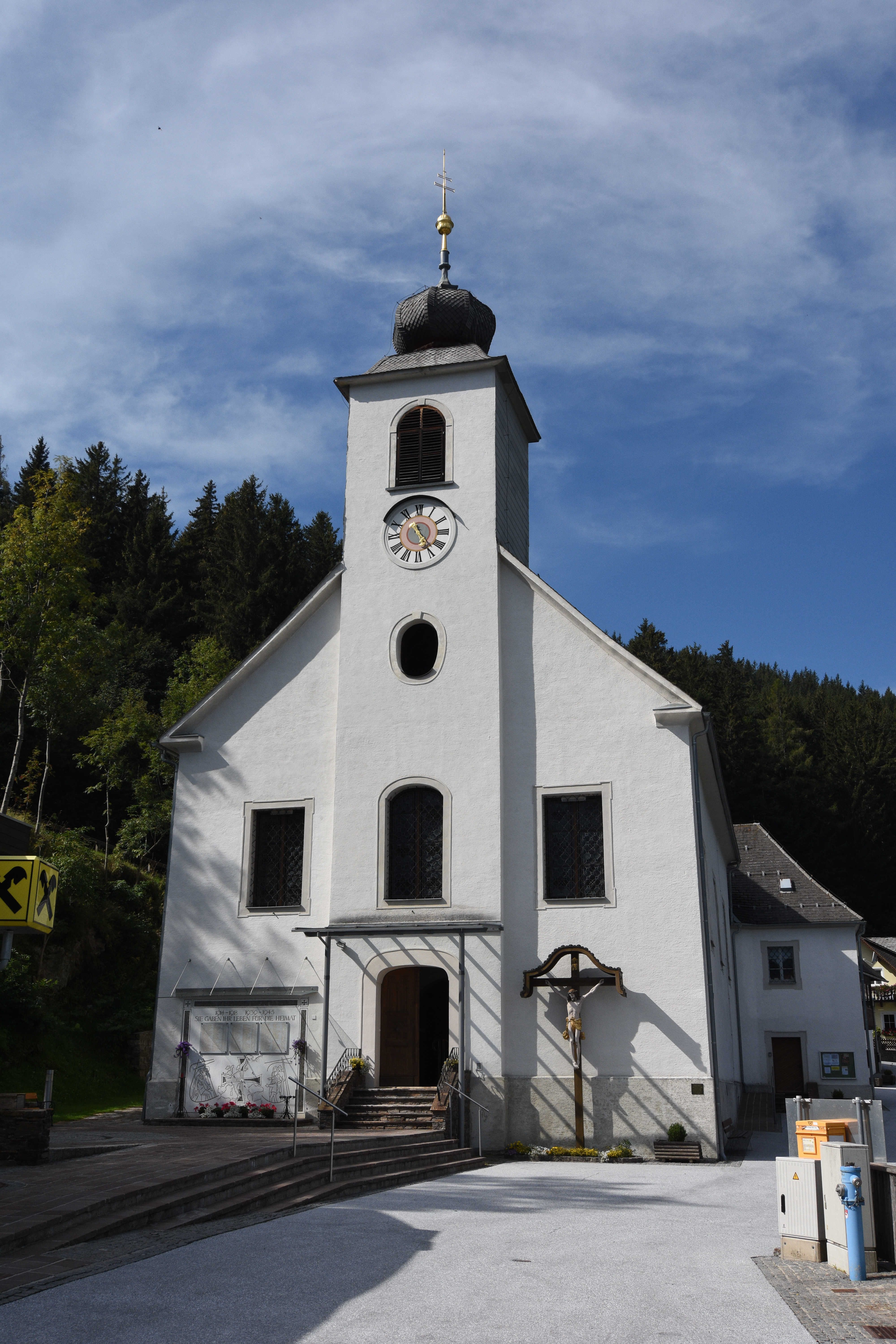 Church Wallfahrtskirche Maria Heilbrunn